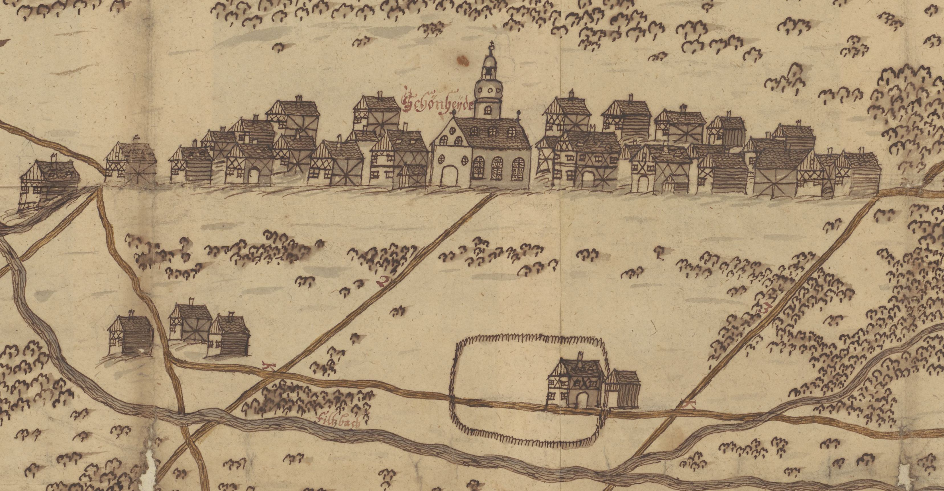 Map of Rote Mühle on Filzbach river and Schönheide, Ore Mountains.